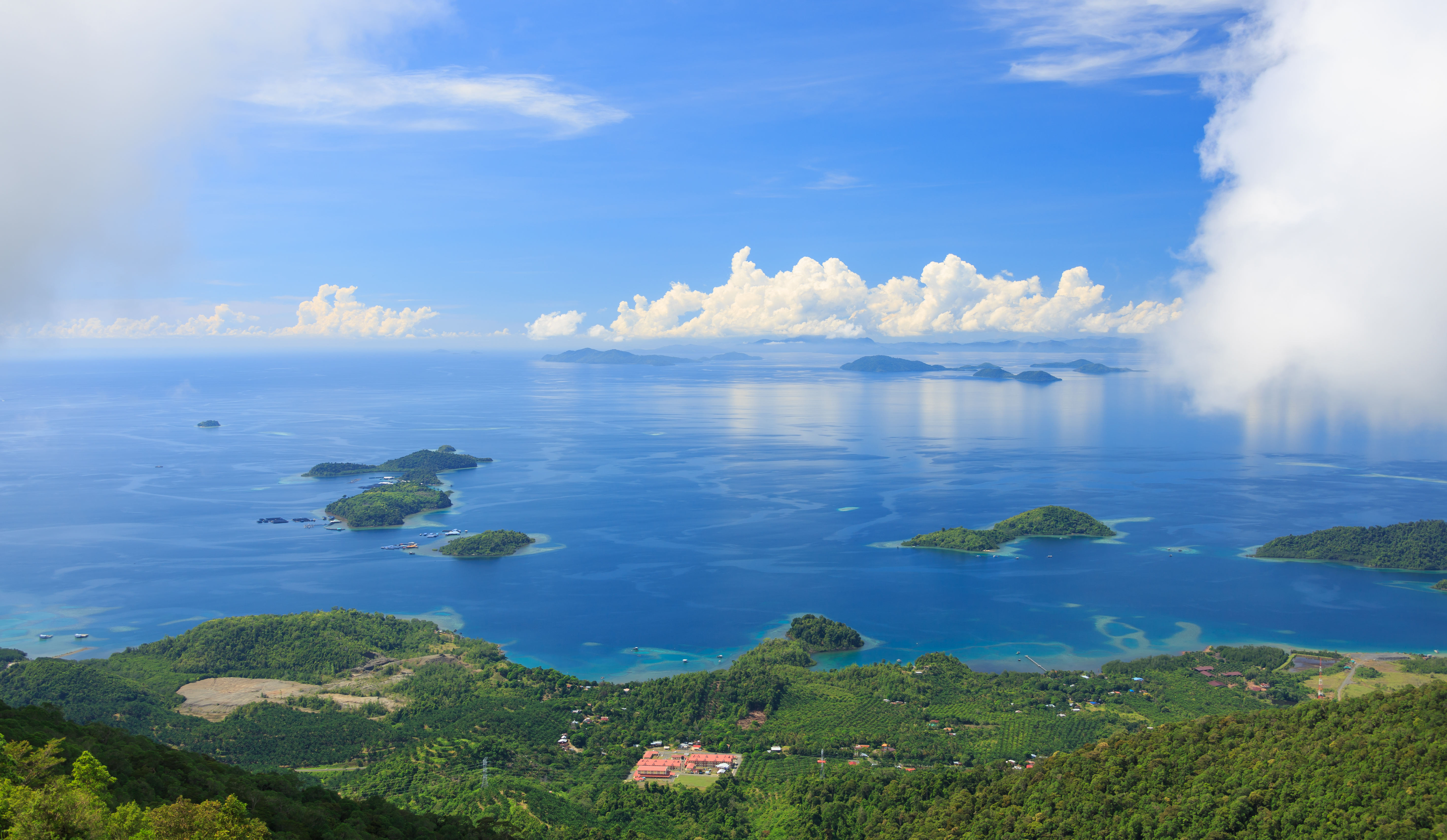 Lahad Datu, Sabah: Panoramic view from "Tower of Heaven" (Menara Kayangan) on Mount Silam over Darvel Bay. In the lower grounds the primary school of Kampung Silam (SK Silam .